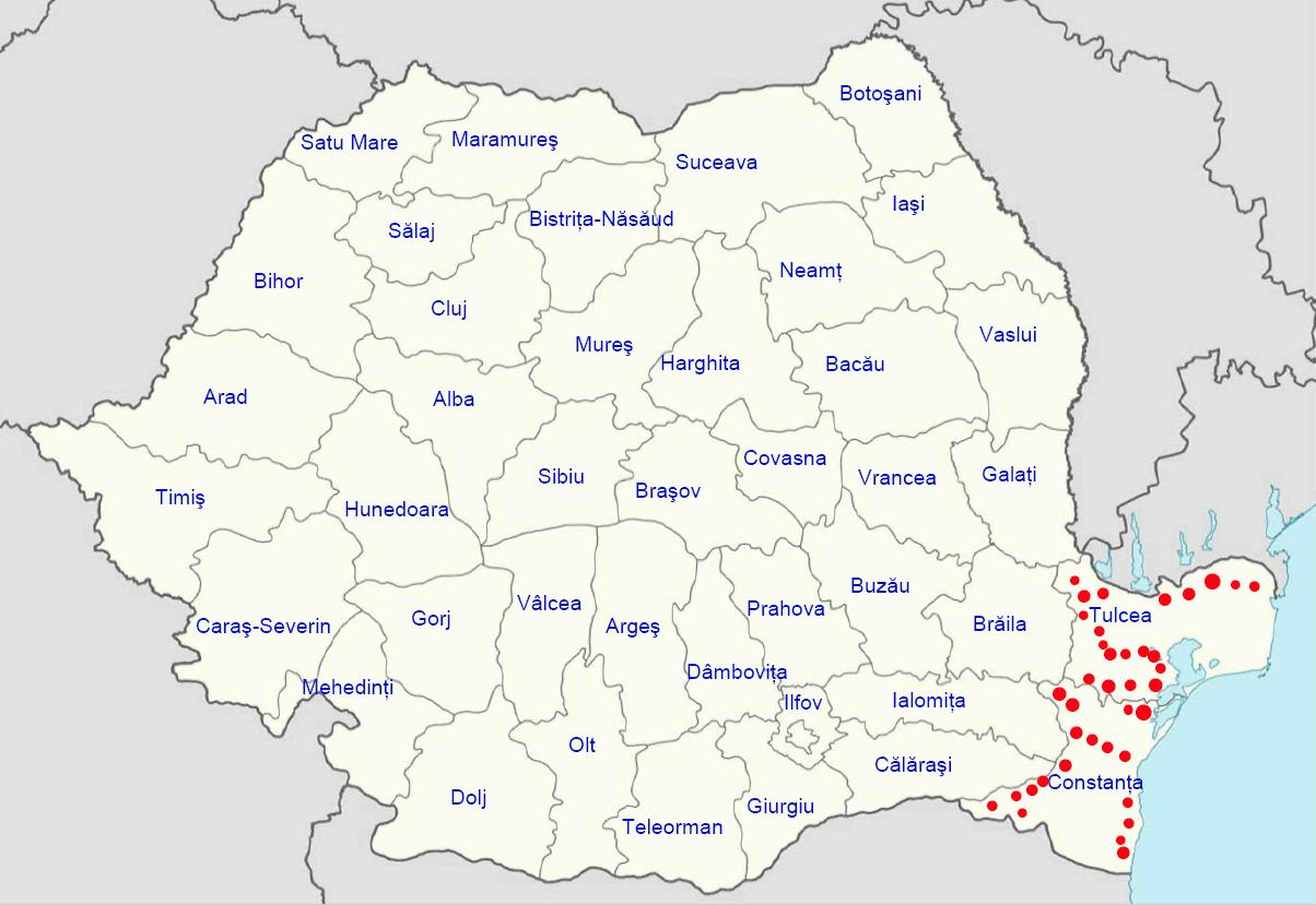 Lacerta trilineata in Romania